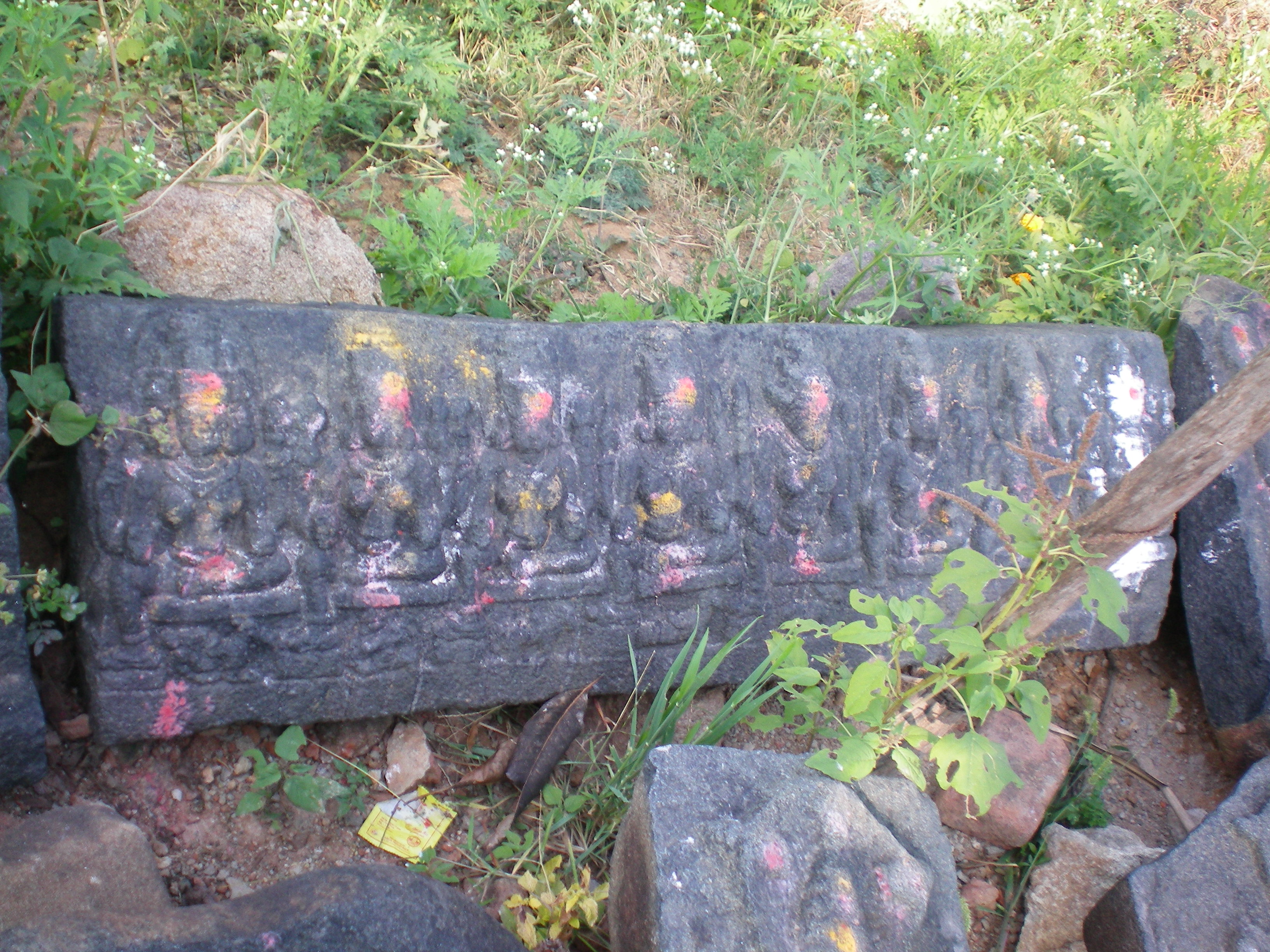 This is one of the many rock carvings that have been known to exist since more than 70+ years in the Kodur village of Pulkal mandal, Medak Dist., AP , India